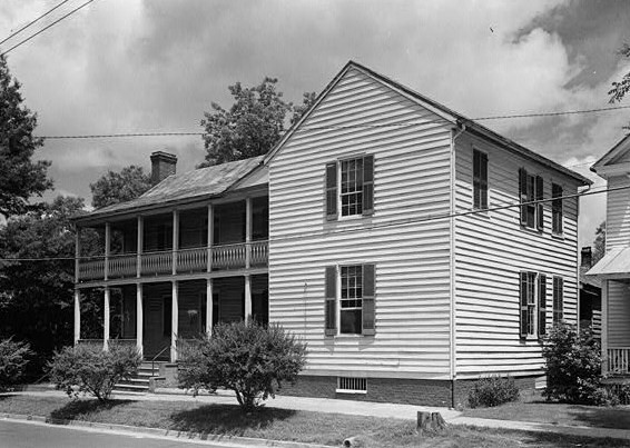 James Iredell House, 107 East Church Street, Edenton (Chowan County, North Carolina)